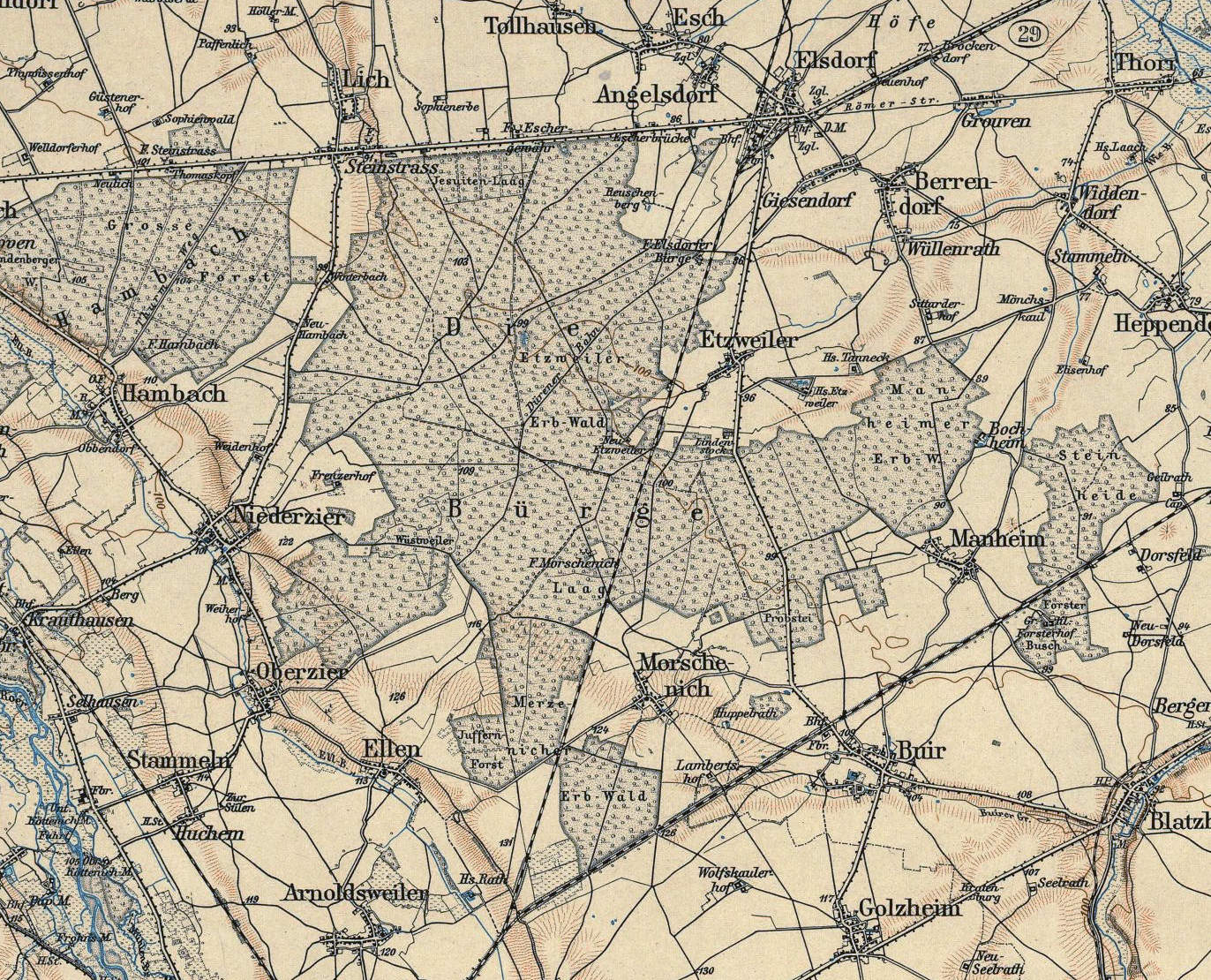 Topografische Karte TK 50 Düren 1902, Bürgewald mit den Bezeichnungen der einzelnen Waldstücke.